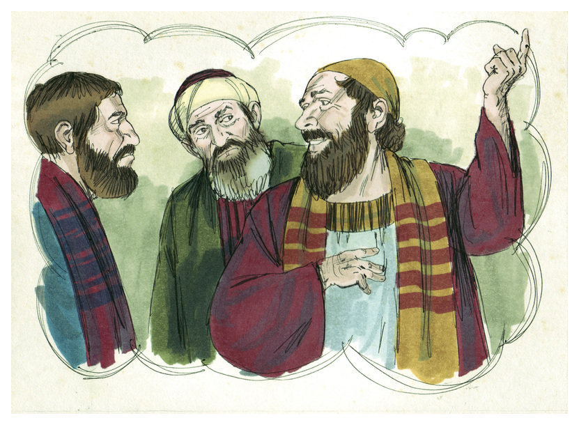 Biblical illustration of Epistle of James Chapter 1